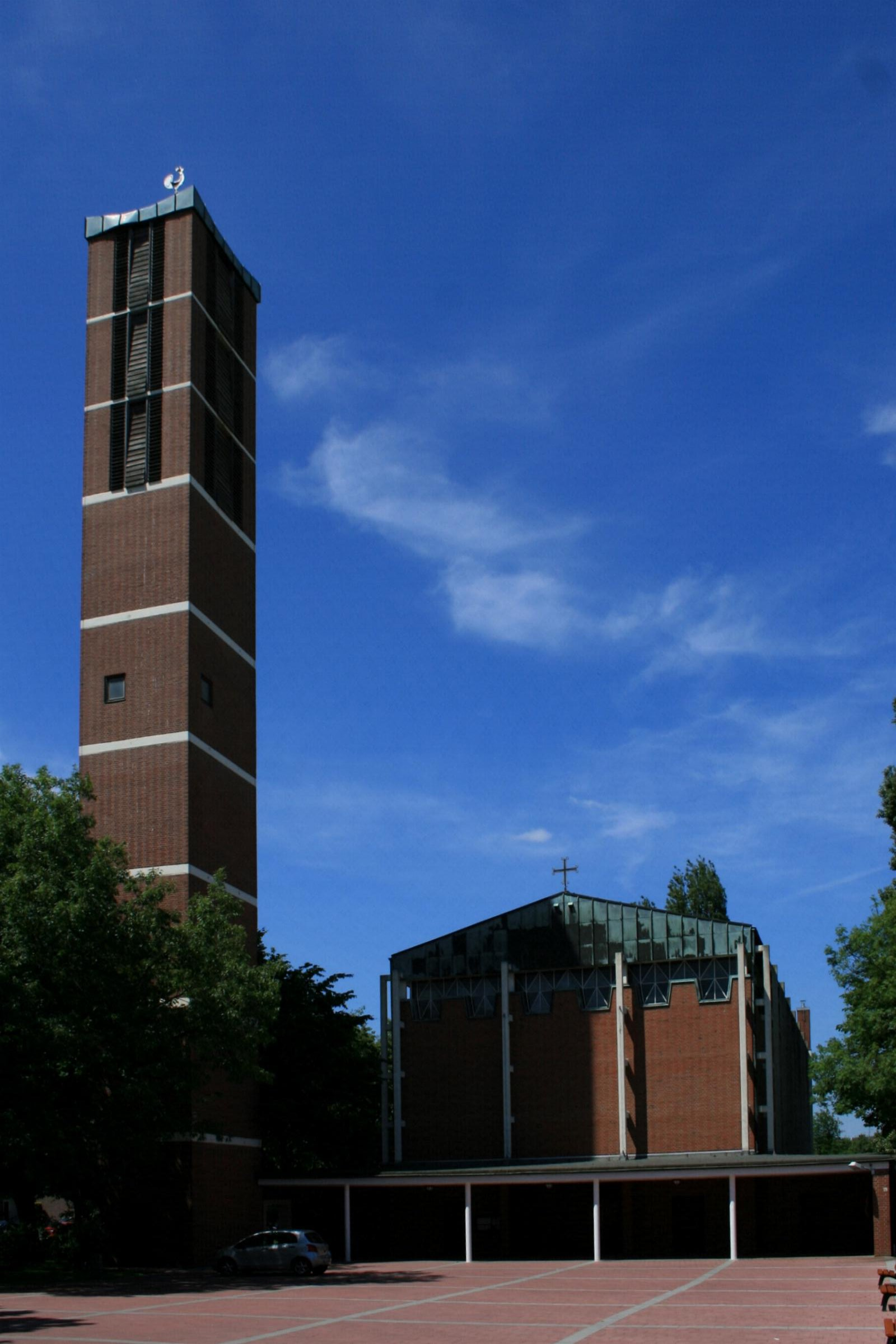 Cultural heritage monument No. L 043 in Mönchengladbach